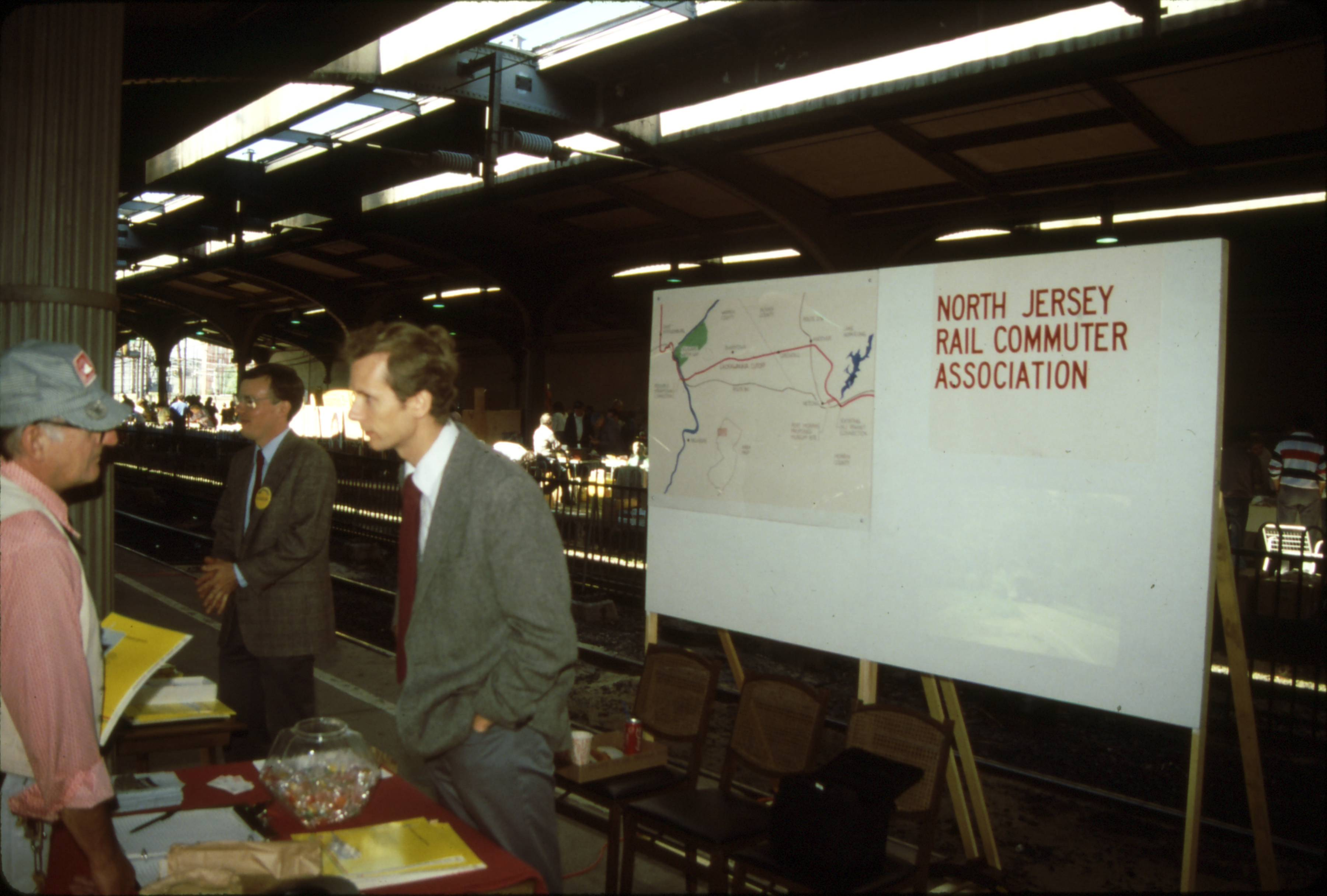 Donald Barnickel answering questions at the Hoboken Festival in New Jersey in 1988.Wally From Columbia (NJ) (talk) 14:54, 4 October 2010 (UTC)